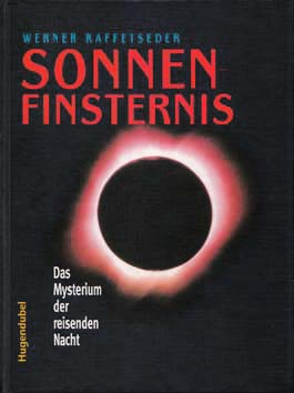 Book Cover of Werner Raffetseder's illustrated non fiction book 'Sonnenfinsternis - Das Mysterium der reisenden Nacht' ('Eclipse of the Sun - the Mystery of the Travelling Night'). Solar corona during totality, taken in La Paz, Baja California, Mexico on the occasion of 11 July 1991 total eclipse.